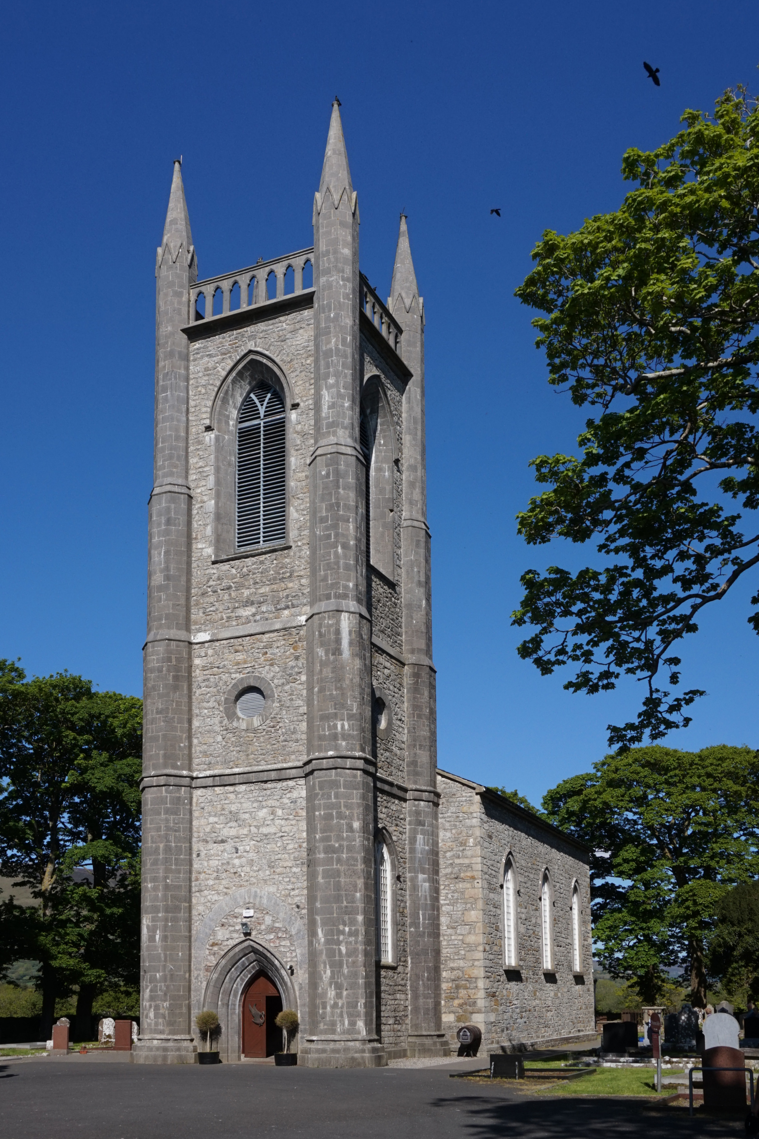 Saint Columba's Church of Ireland, Drumcliffe, County Sligo, Ireland